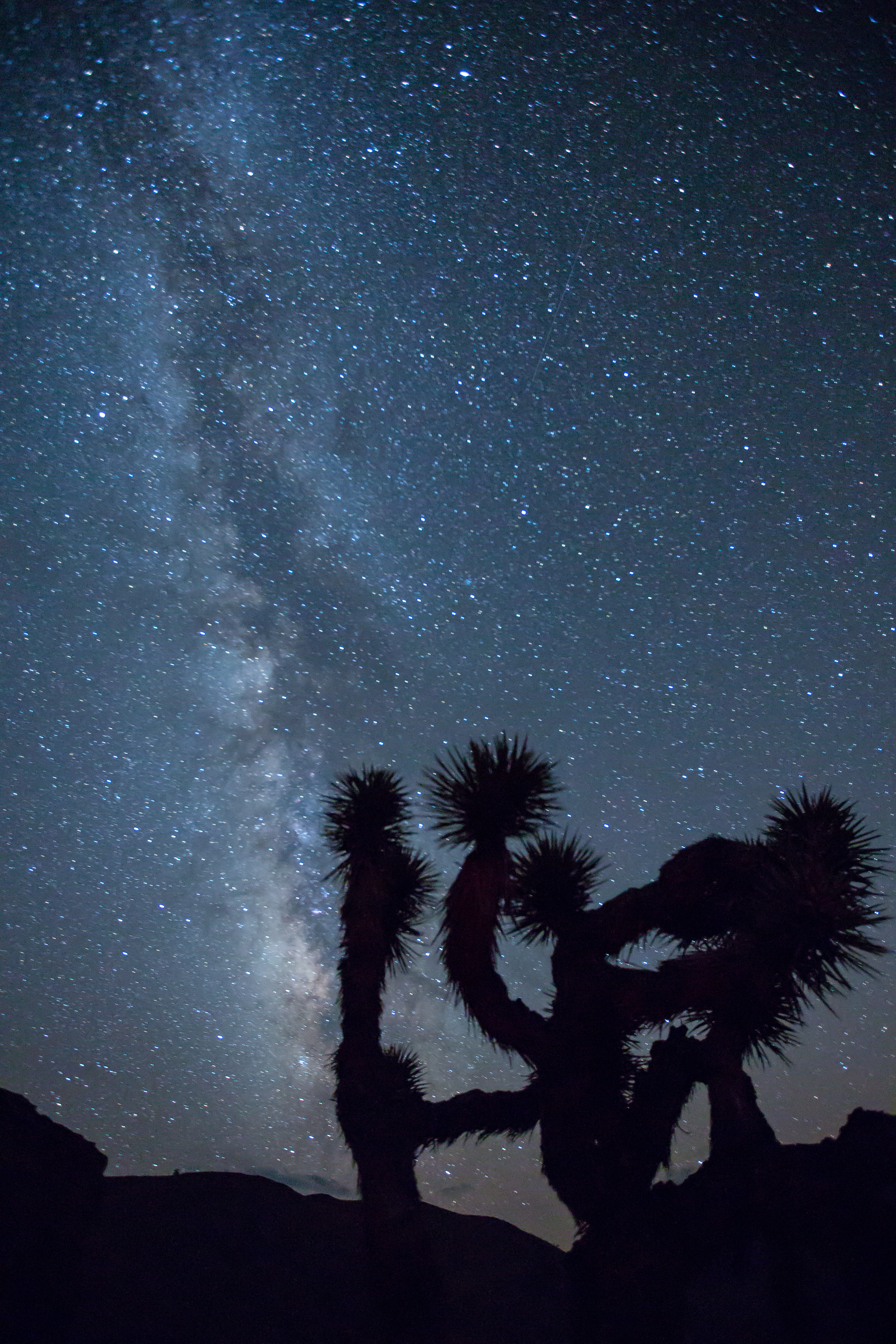 Portions of the Inyo, Sylvania, and Piper Mountains, for which this wilderness takes its name, can be found within this area of the California Desert. Alluvial fans cover large portions of the eastern side of the wilderness, with plains and hills also part of the landscape. Desert bighorn sheep habitat can be found in three areas within this wilderness. Sagebrush and juniper-pinyon woodland are the common vegetation, with conifer trees on the higher elevations. At the base of the Inyo Mountains, can be found one of the northernmost stands of Joshua trees. Learn more: Photo: Bob Wick, BLM California